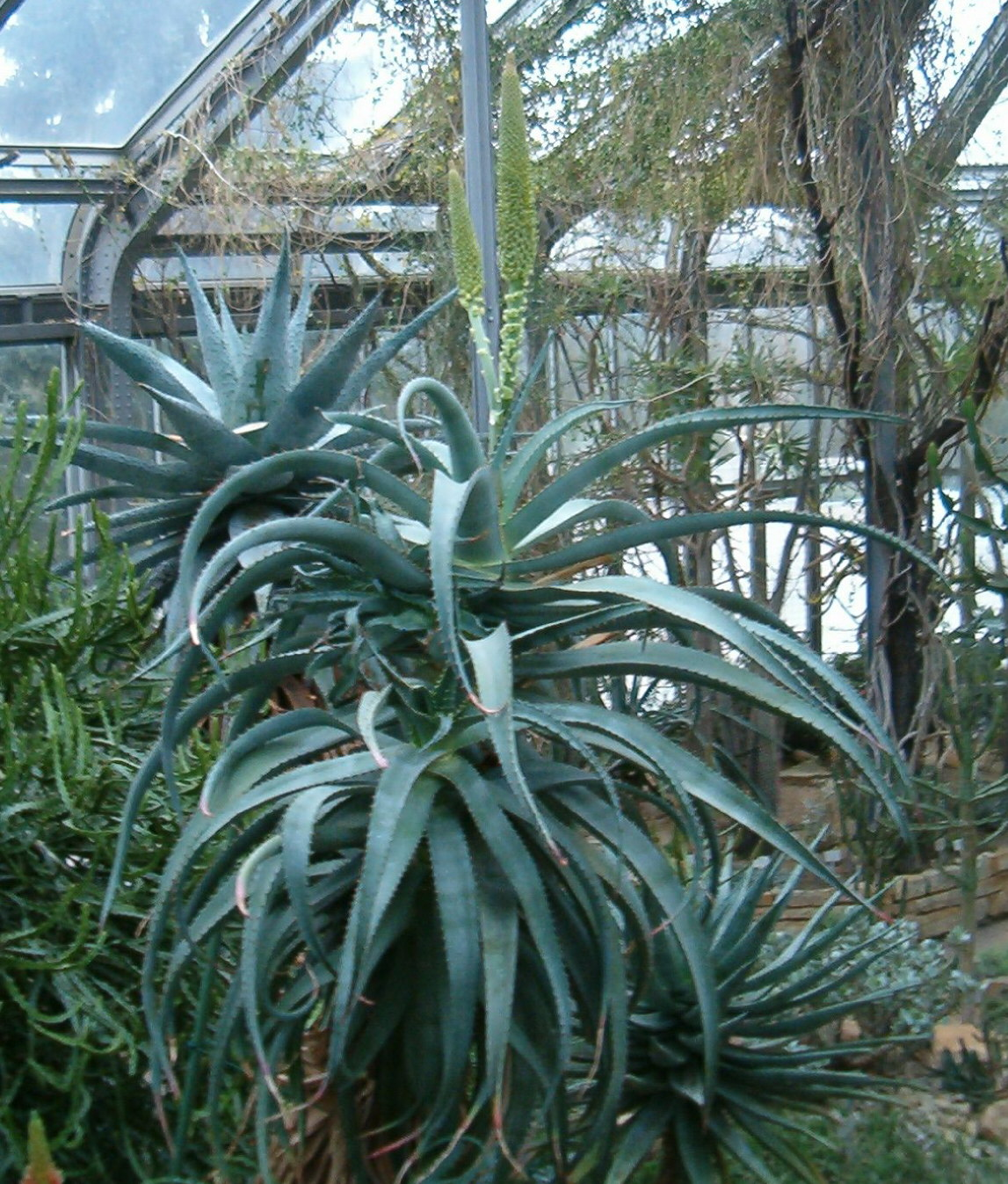 Location: Botanical Gardens Berlin Dahlem Xerophyt